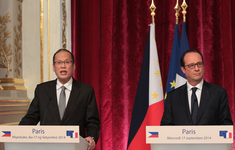 Philippine President Benigno Aquino III and French President François Hollande partake in a joint press conference at the Élysée Palace in Paris on 17 September 2014.